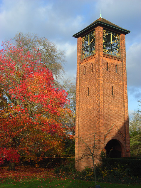 The Herbert Maryon-designed University War Memorial, on the London Road Campus of the University of Reading. The First World War memorial takes the form of a clock tower with the dates 1914 and 1918 incorporated into the clock. The names of the fallen are listed inside the building.